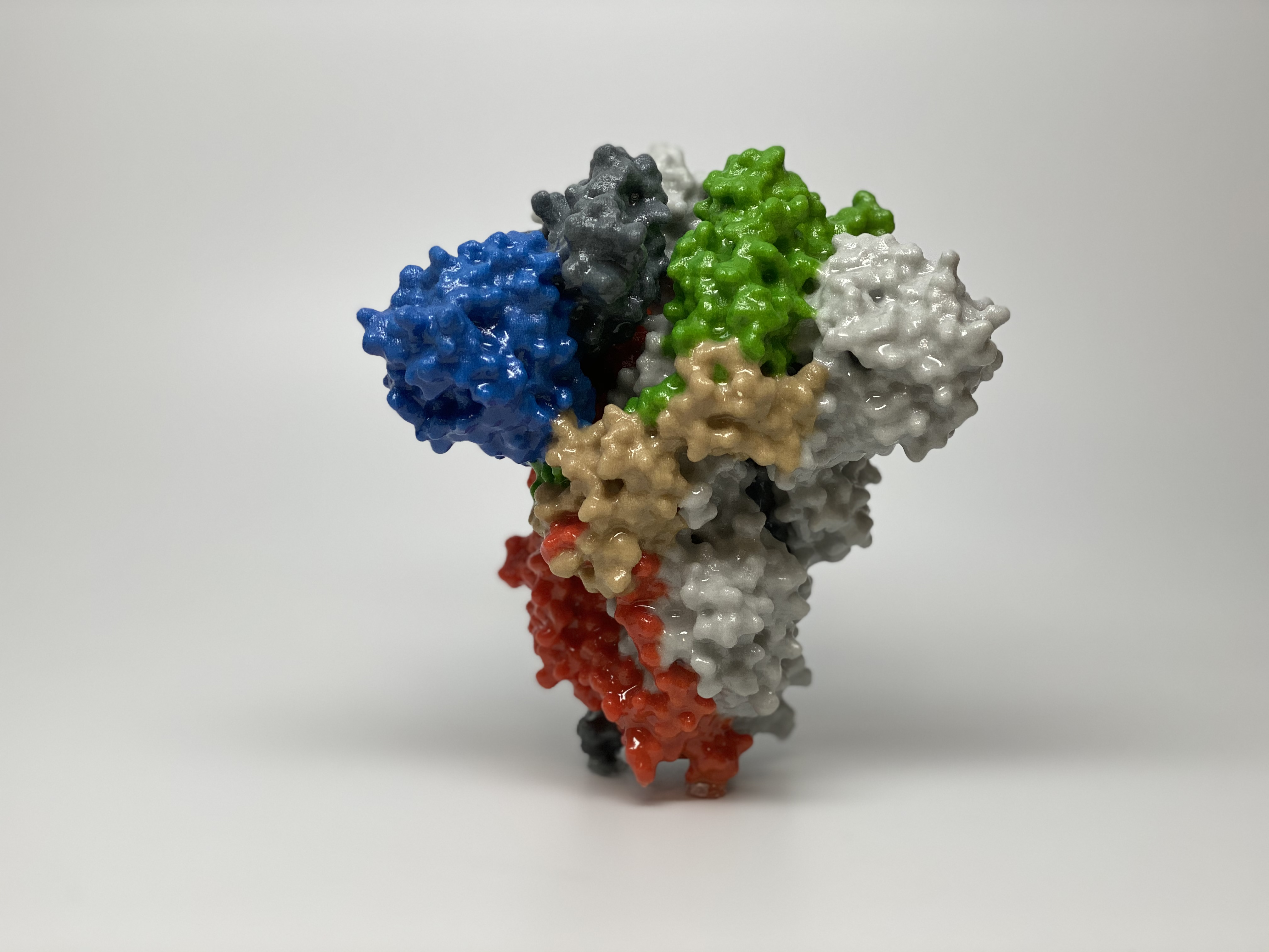 3D print of a spike protein on the surface of SARS-CoV-2—also known as 2019-nCoV, the virus that causes COVID-19. Spike proteins cover the surface of SARS-CoV-2 and enable the virus to enter and infect human cells. For more information, visit the NIH 3D Print Exchange at . Credit: NIH